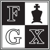 Logo of Federação Gaúcha de Xadrez. Design by Francisco Trois basead on former logo of Federação Rio-Grandense de Xadrez. Digital version by Igor Freiberger.